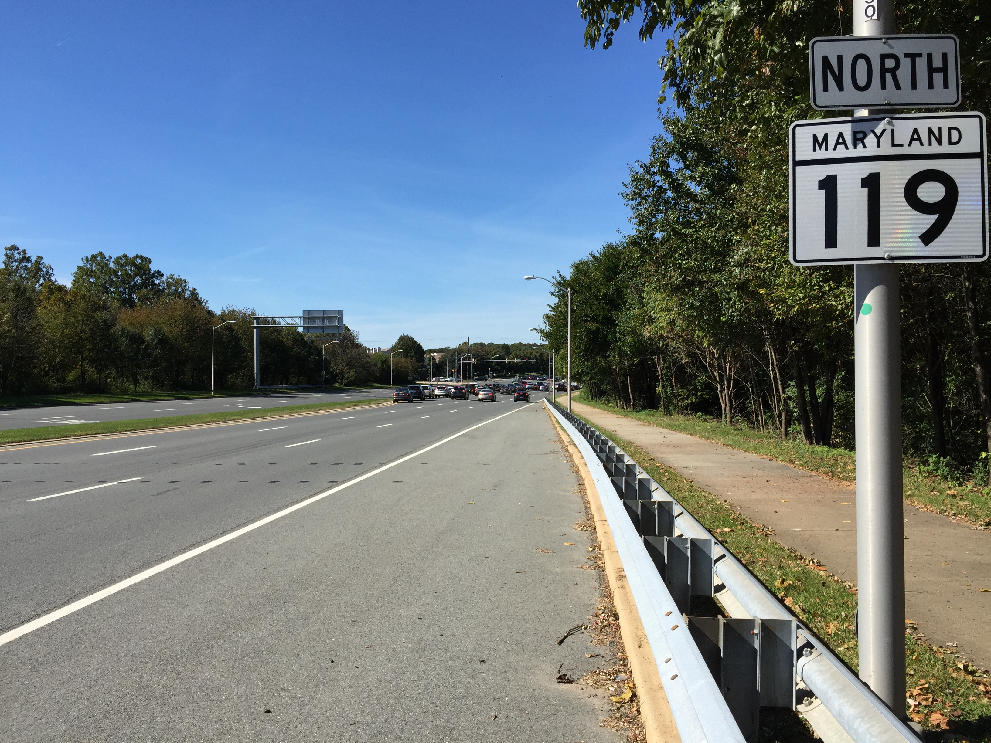 View north along Maryland State Route 119 (Great Seneca Highway) between Sam Eig Highway and Muddy Branch Road in Gaithersburg, Montgomery County, Maryland